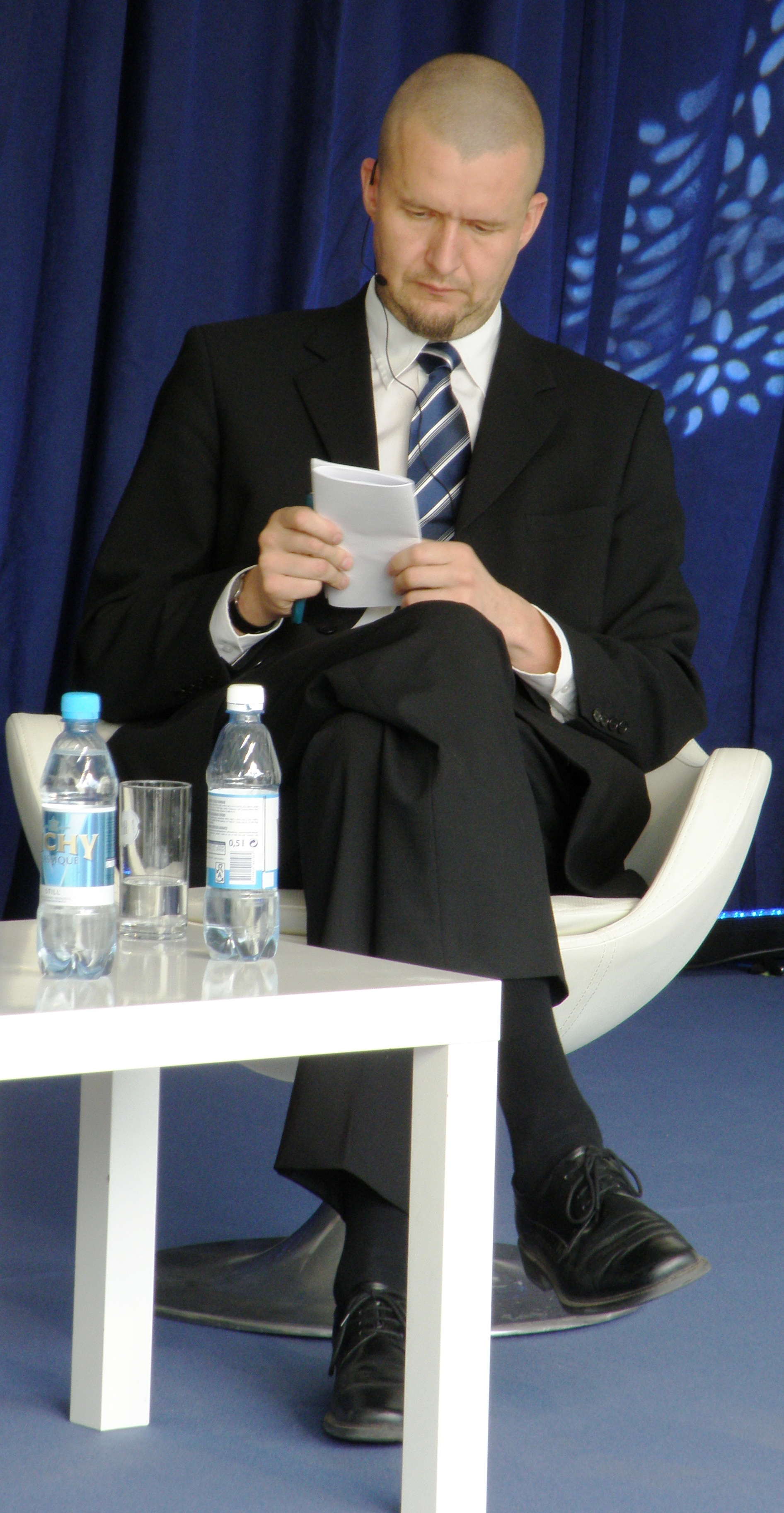 Sven Sakkov during NATO day in Tallinn.